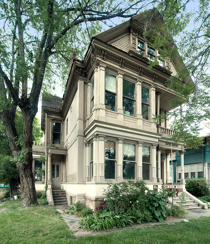 Simon Bamberger was governor of Utah from 1917-1921. His house in Salt Lake City is listed on the National Register of Historic Places.